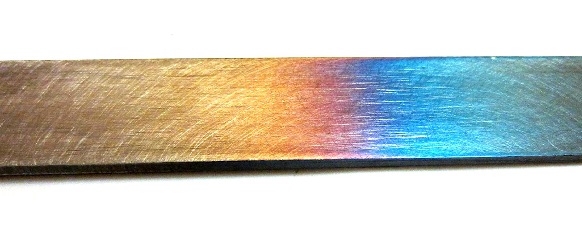 Tempering colors produced on the surface of steel indicate the temperature to which the steel was heated.